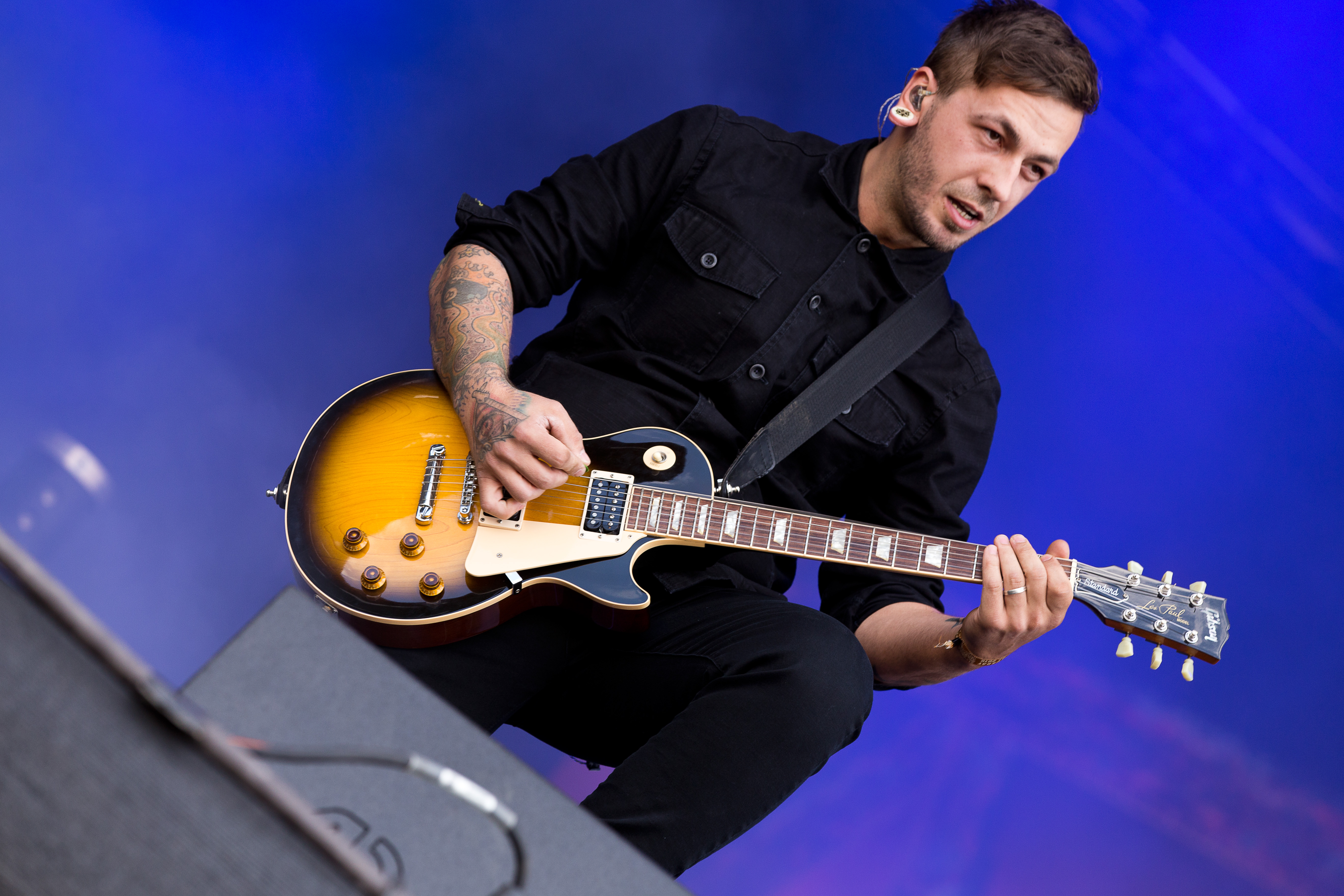 The German Neue Deutsche Härte band Heldmaschine at the Rockharz Open Air 2016 in Ballenstedt/Germany.